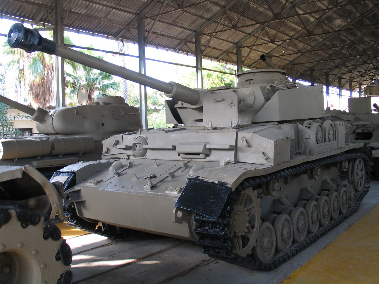 Description: PzKpfw IV in Batey ha-Osef museum, Tel Aviv, Israel. 2005. Source: Photo by me, User:Bukvoed.